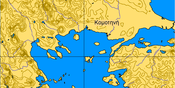 Komotini Greece